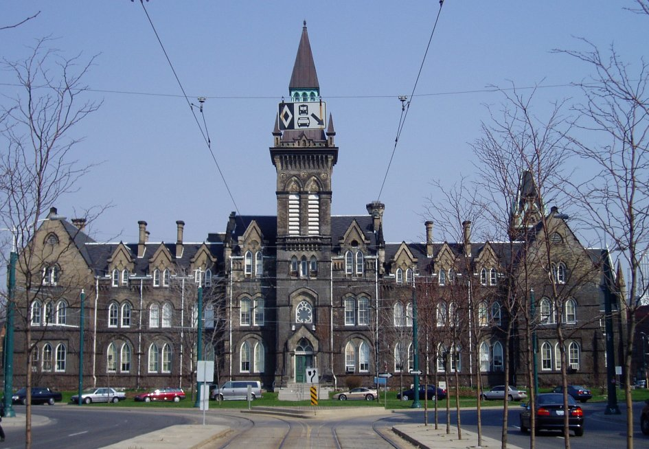 Taken by SimonP in April 2005